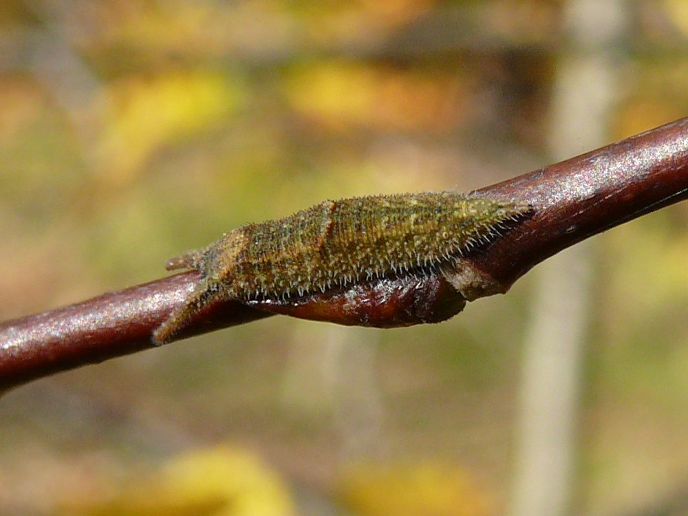 Young caterpillar of Lesser Purple Emperor in October Aufgenommen bei einer Exkursion des Arbeitskreises Schmetterlinge der Kreisgruppe München beim Landesbund für Vogelschutz (LBV).